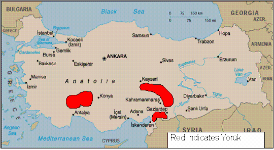 Main areas inhabited by Yörük tribes in Anatolia